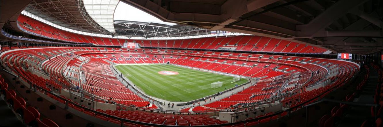 Wembley Stadium, London